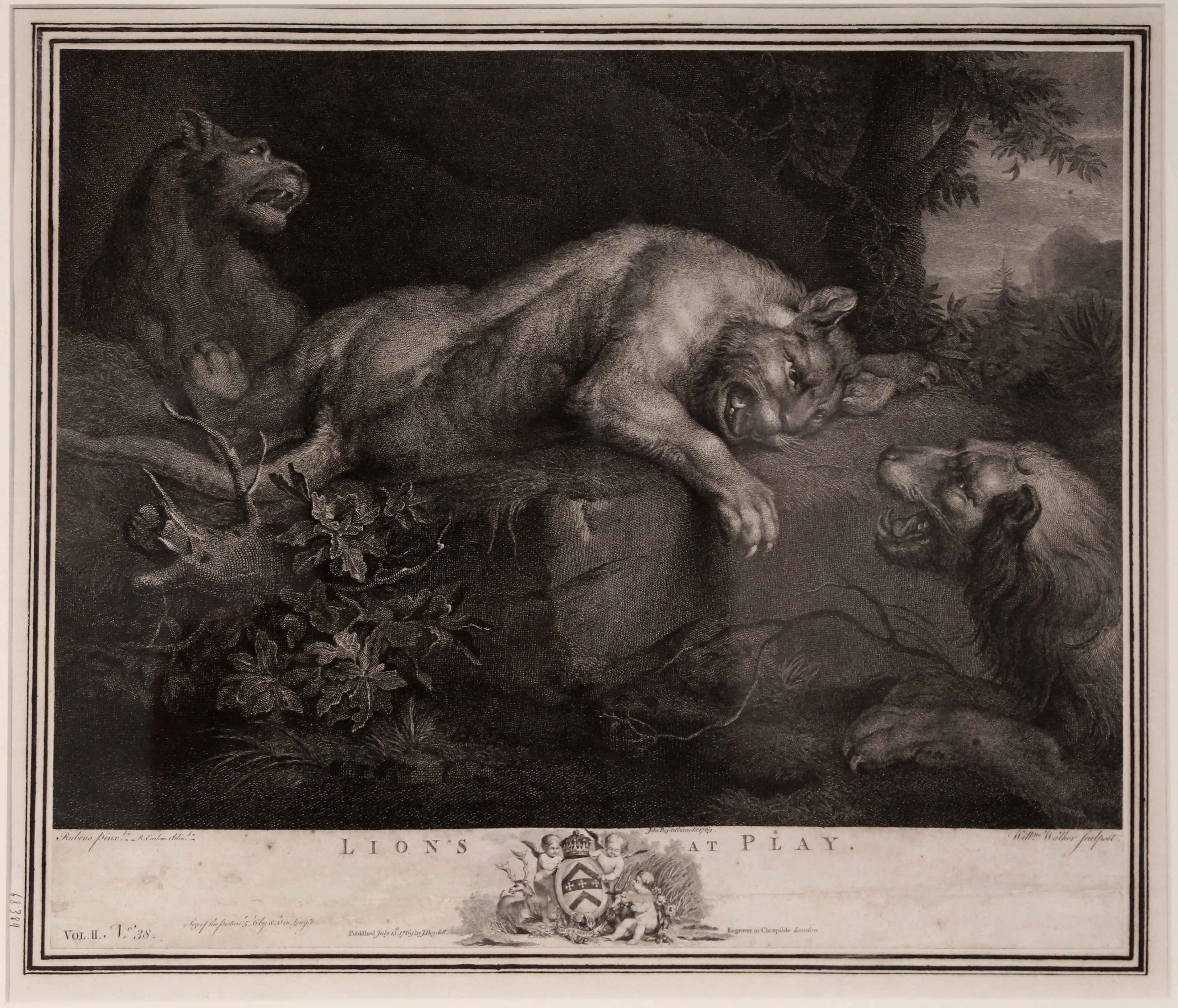 Livorno in engravings